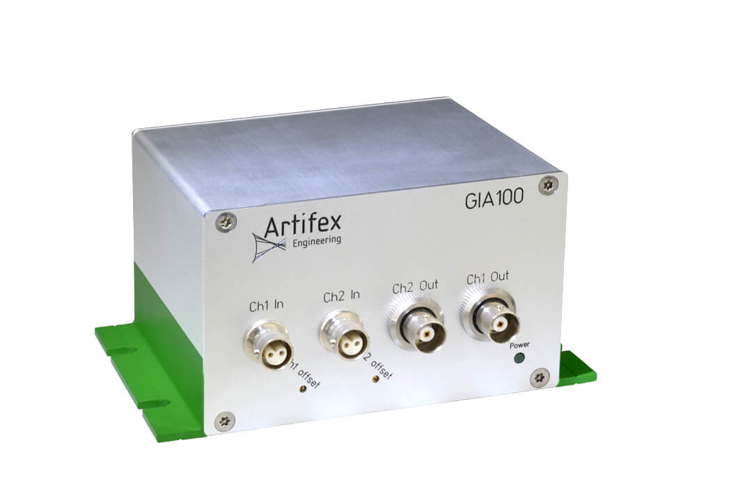 Boxcar Avergarer manufactured by Artifex Engineering